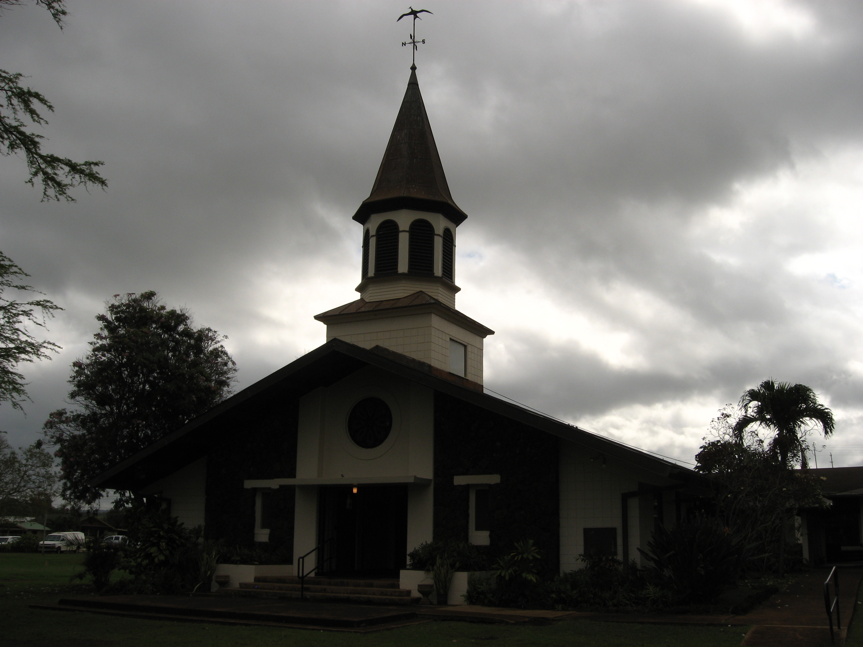 Haleʻiwa is a North Shore community and census-designated place (CDP) in the Waialua District of the island of Oʻahu, City and County of Honolulu. Haleʻiwa is located on Waialua Bay, the mouth of Anahulu Stream (also known as Anahulu River). A small boat harbor is located here, and the shore of the bay is surrounded by Haleʻiwa Beach Park (north side) and Haleʻiwa Aliʻi Beach Park (south side). Further west from the center of town is Kaiaka State Recreation Area on Kiaka Point beside Kaiaka Bay. As of the 2010 census, the CDP had a population of 3,970. It is the largest commercial center on the North Shore of the island. Its old plantation town character is preserved in many of the buildings, making this a popular destination for tourists and residents alike, visiting surfing and diving sites along the north shore.